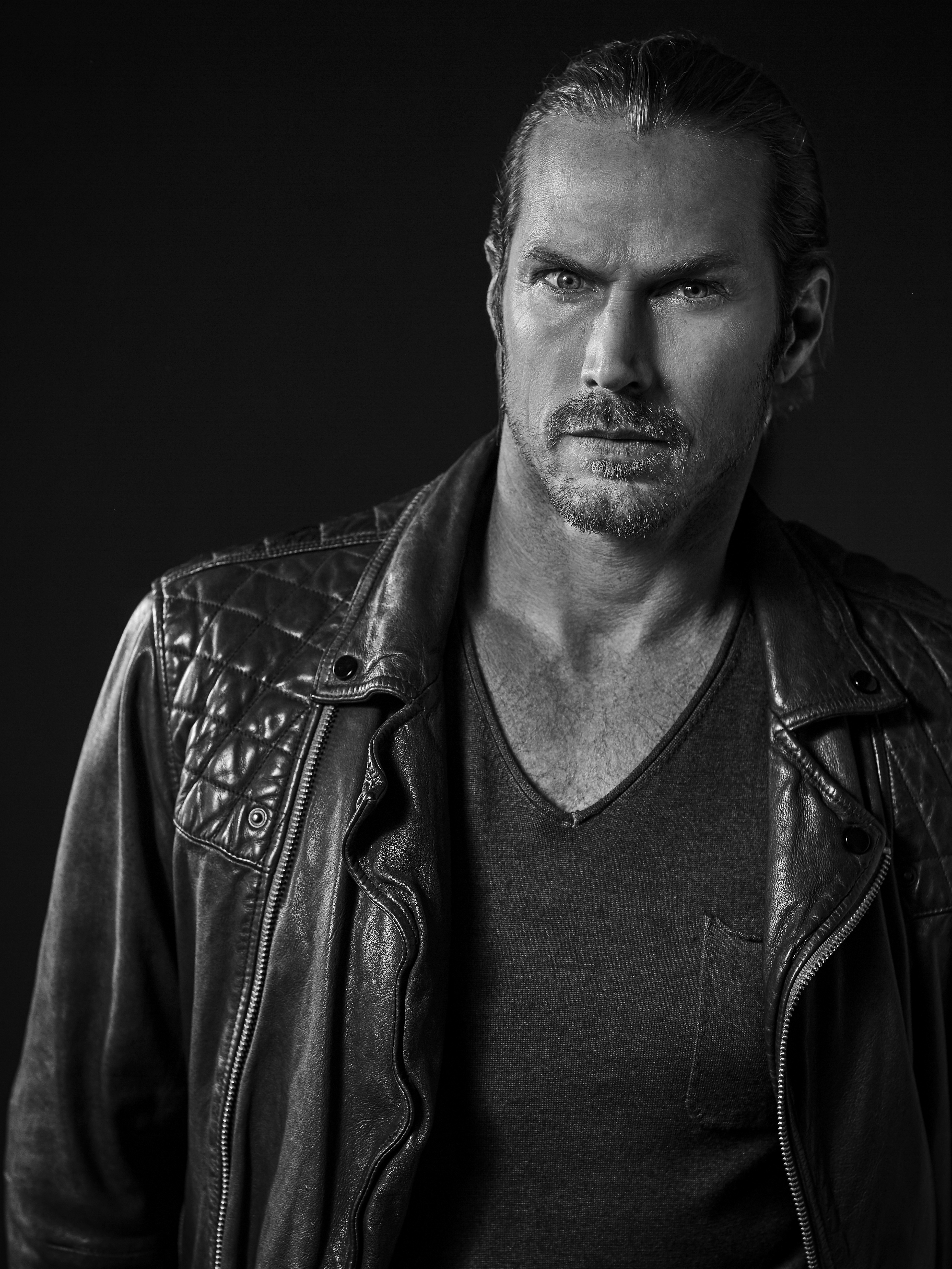 Photo by John Russo